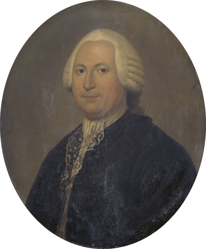 Pierre-Etienne Bourgeois de Boynes, Minister of Marine of Louis XV, between 1771 and 1774. Painting commissioned by Louis XVI.